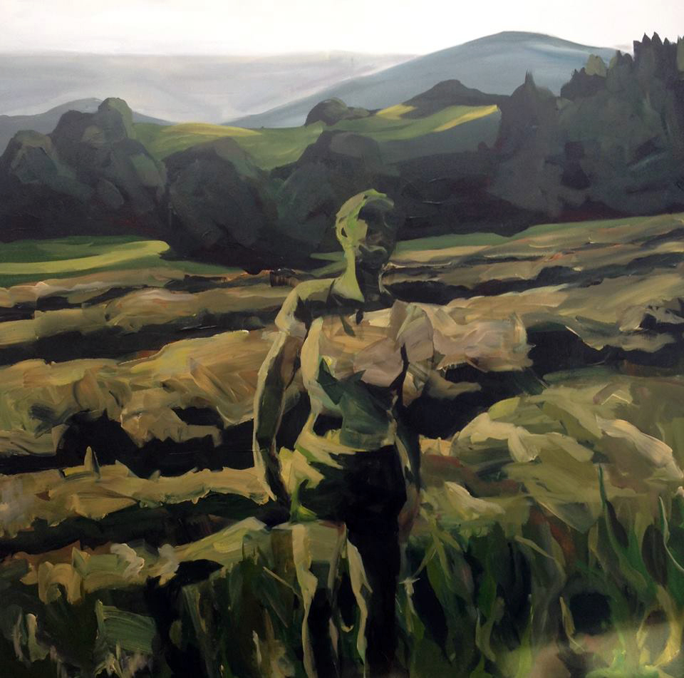 The Emerging, Acryl Canvas 130 x 130cm 2014